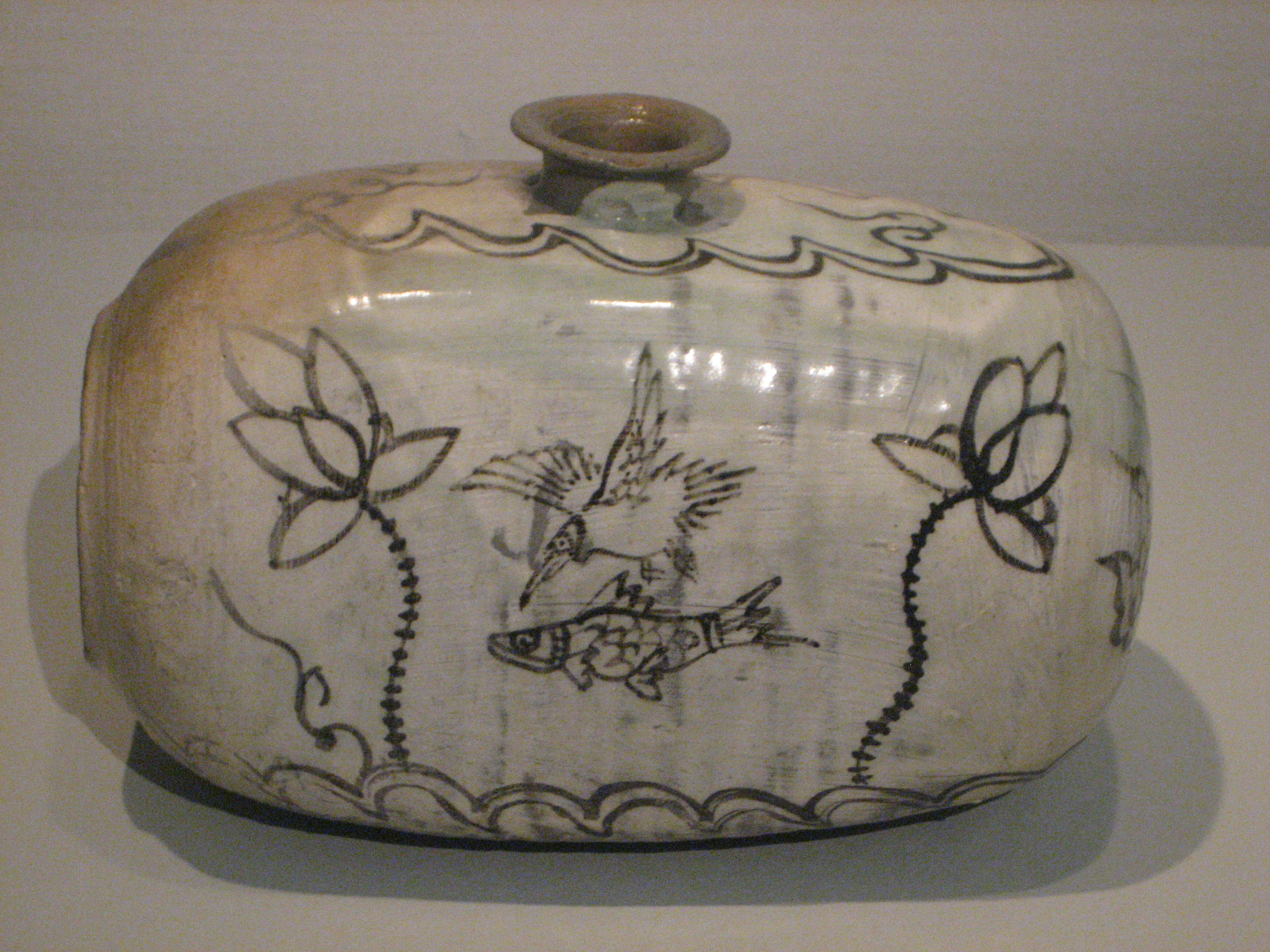 Buncheong ware drum-shaped bottle with iron brown decoration of fish, bird and lotus, late 15th-early 16th century Korean, Museum of Oriental Ceramics, Osaka